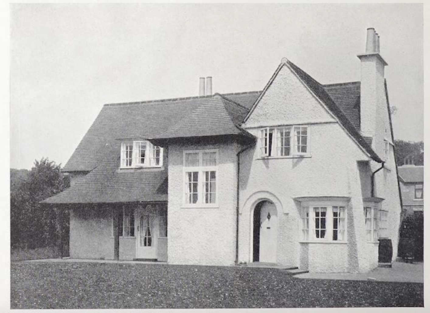 From the Studio yearbook of decorative art 1913, p.52 House by the architect John Rigby Poyser